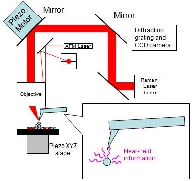 TERS system with combination of AFM and Raman. [1] (Picture redrew from the literature